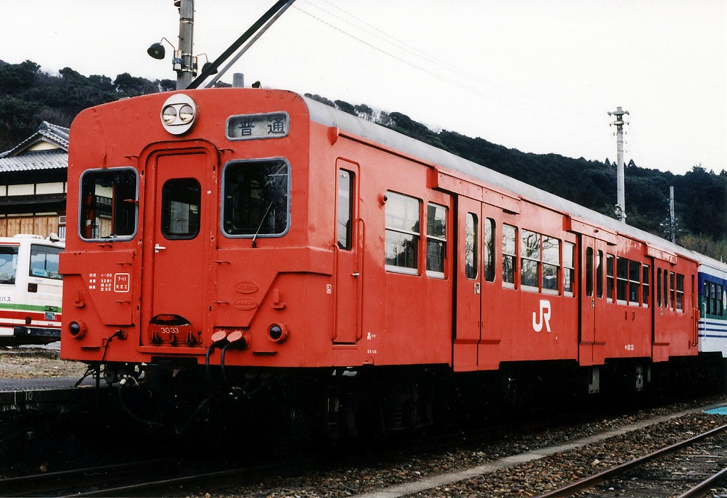 JR East Kiha 30 33 at Kazusa-Kameyama Station on the Kururi Line